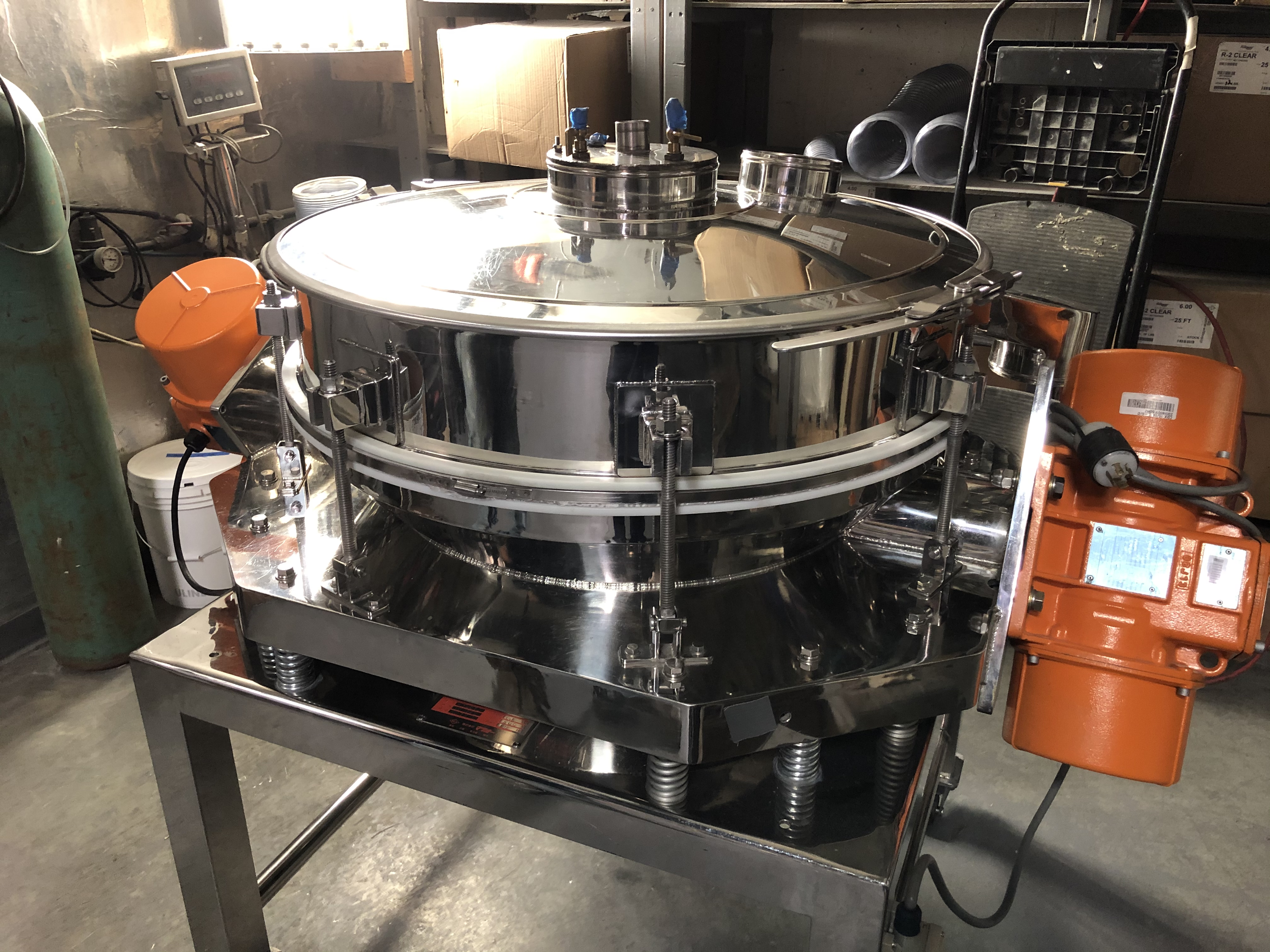 This is a high energy screening machine that allows for screening of powders and other products.